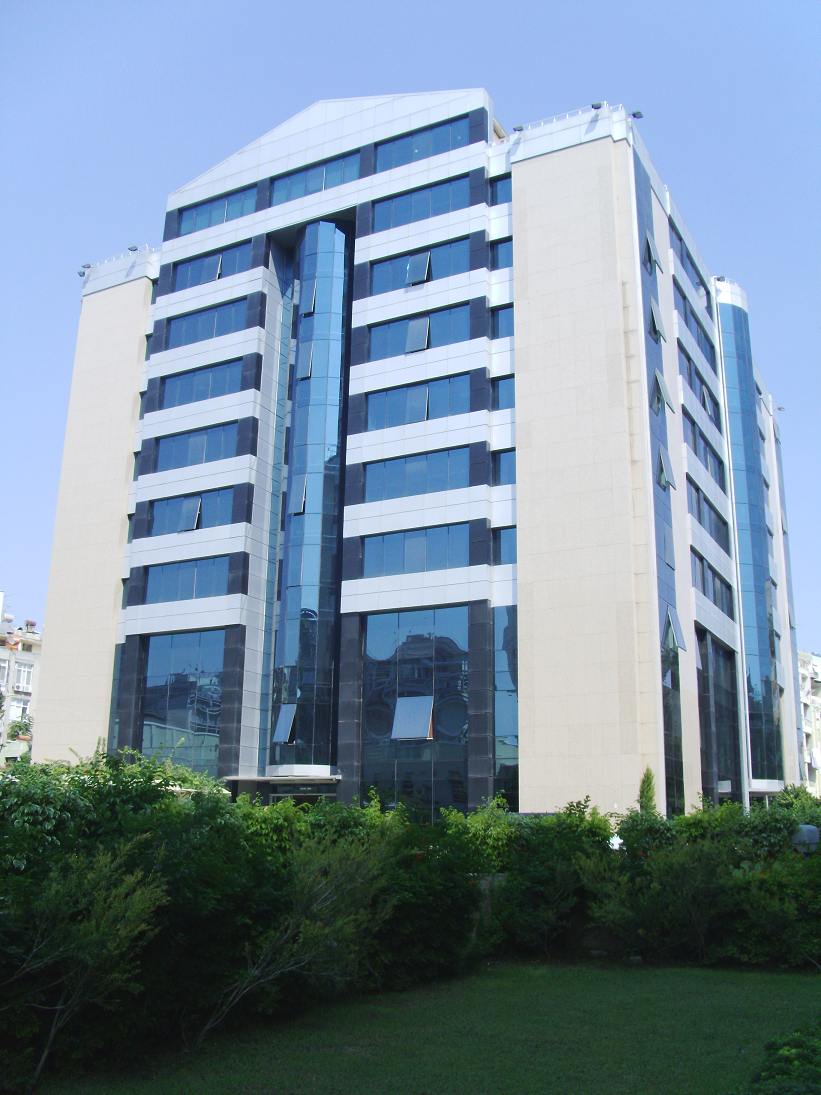 Adana Metropolitan Municipality Hall